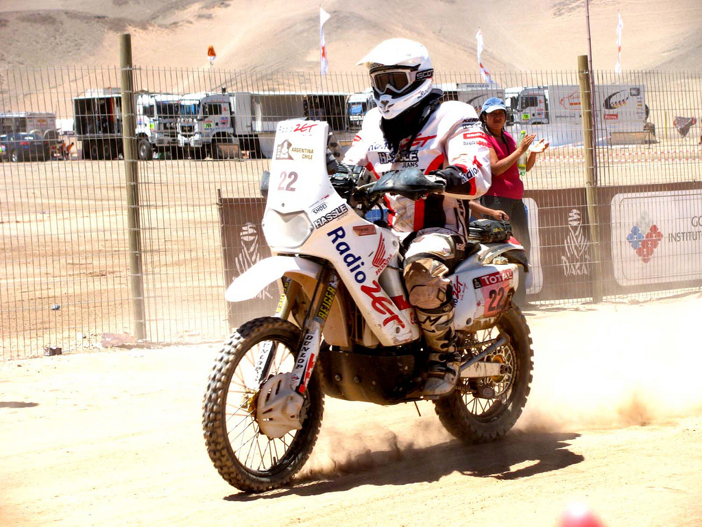 Dakar 2010. Biker (#22) Krzysztof Jarmuz (POL). Coquimbo, Chile.